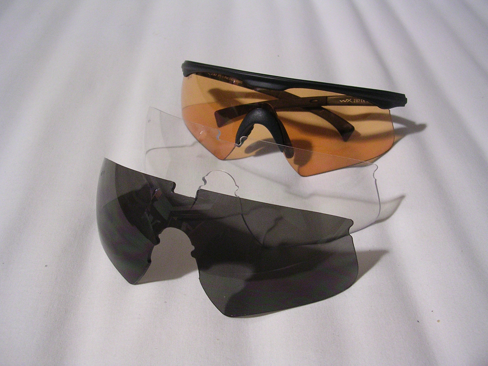 A pair of Wiley-X PT-1 shooting glasses with all three available lens tints (gray-green, clear, and persimmon). The Wiley X PT-1 protective spectacle consists of a plastic frame (one size) with interchangeable polycarbonate lenses. The frame and lens assembly weighs 1.3 ounces (37 gram). The nosepiece is adjustable for improved fit and comfort. All lenses have been treated with a hard coat to reduce scratching and maximize resistance to chemicals, such as DEET, on both inner and outer surfaces of the lens. The Wiley X PT-1 provides ballistic-fragmentation protection and meets all ANSI Z87.1-2003 optical and safety requirements. The lens material blocks 99.9% of all UVA and UVB light. This eyewear is for Soldiers who do not require prescription lenses. Wiley-X PT-1 Safety Glasses are also designed to meet the ballistic impact standards set by the U.S. Military (MIL-PRF-31013, Clause 3.5.1.1). These standards are 7× higher than ANSI requirements.